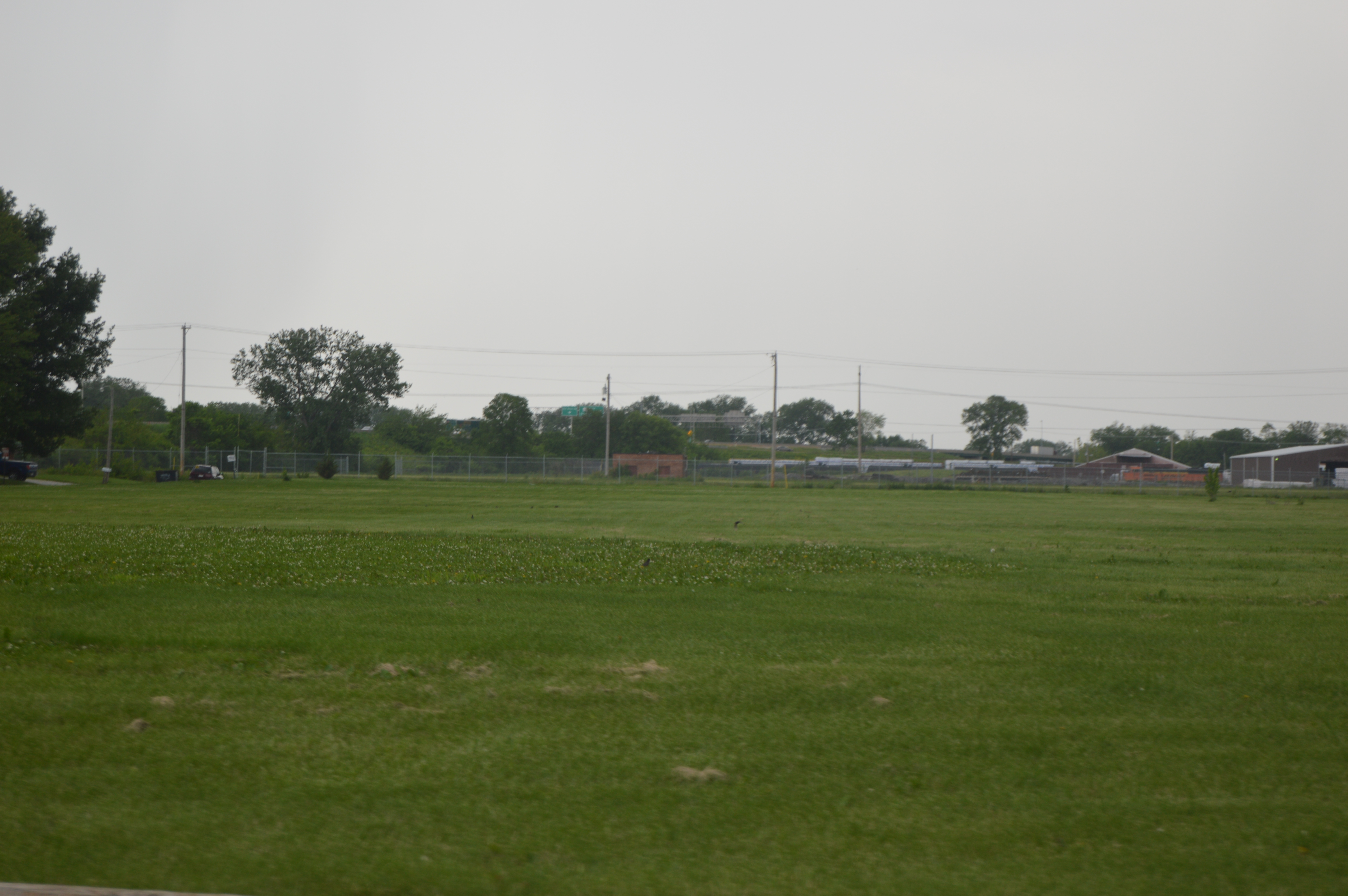 Overview of the remains of the Mitchell Archaeological Site, seen looking westward from Greenway Drive in Mitchell, Illinois, United States. The site is listed on the National Register of Historic Places.